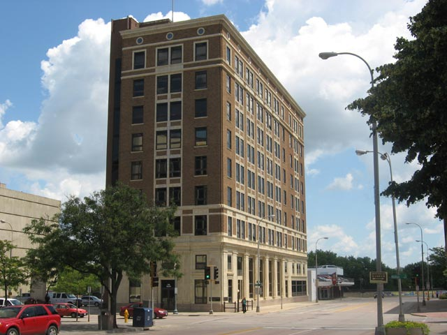 National Bank Building in downtown Sioux Falls, South Dakota, USA.